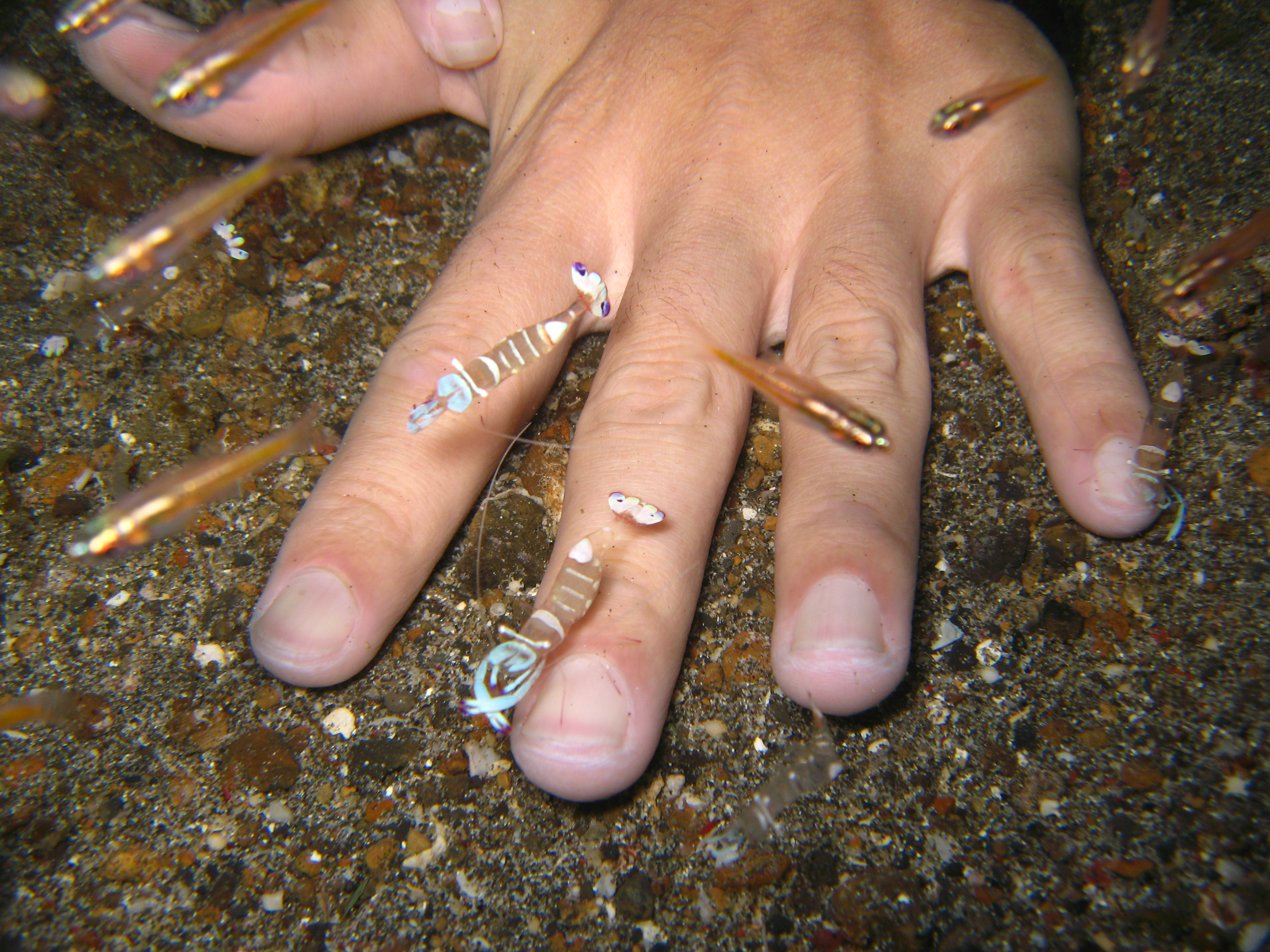 Under water manicure courtesy of cleaner shrimp, Periclimenes magnificus. Lembeh straits, North Sulawesi, Indonesia.